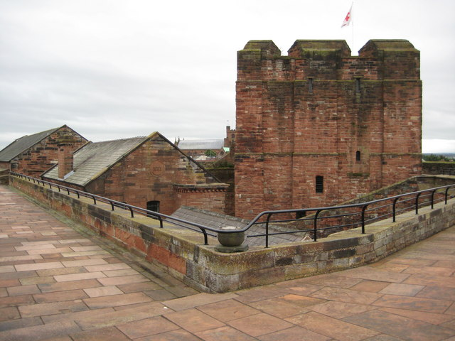 Carlisle Castle The battlements and keep of Carlisle Cathedral, Carlisle Cathedral is just visible to the left of the Keep.